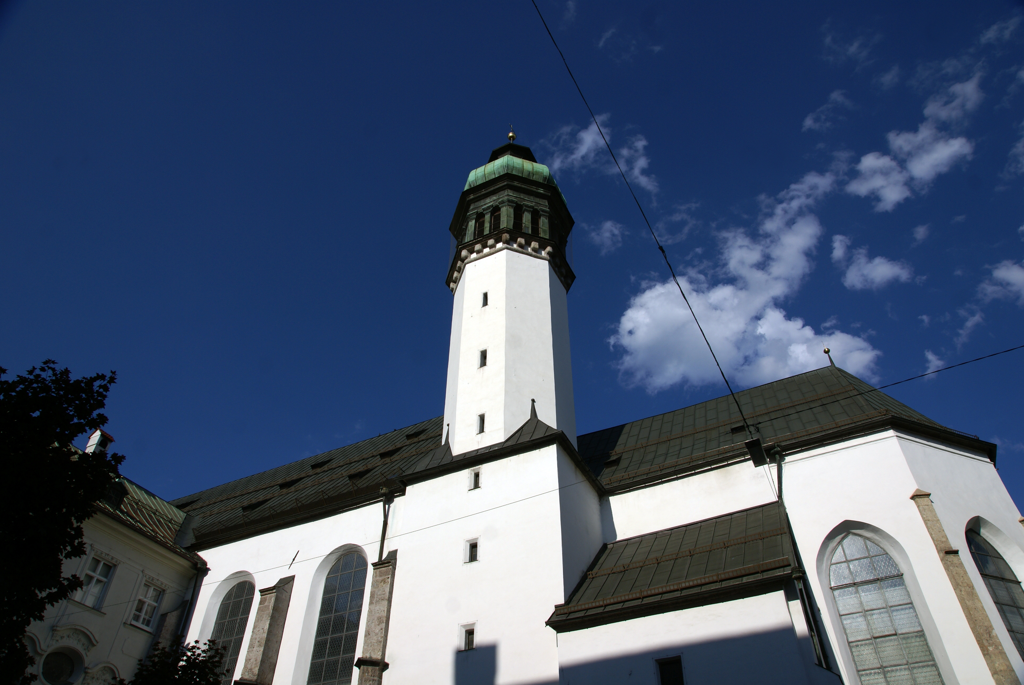 Hofkirche in Innsbruck, Austria